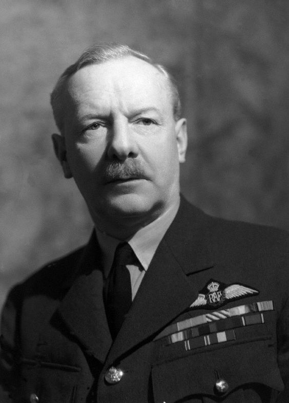 Arthur Harris, commander in chief of Bomber Command